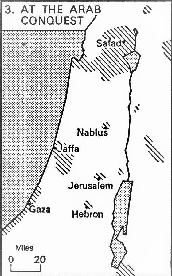 The Jewish area in the holy land since the time of the Arab conquests. Jews in Galilee, Jerusalem, Hebron, Nablus, Jaffa until the Zionist immigration